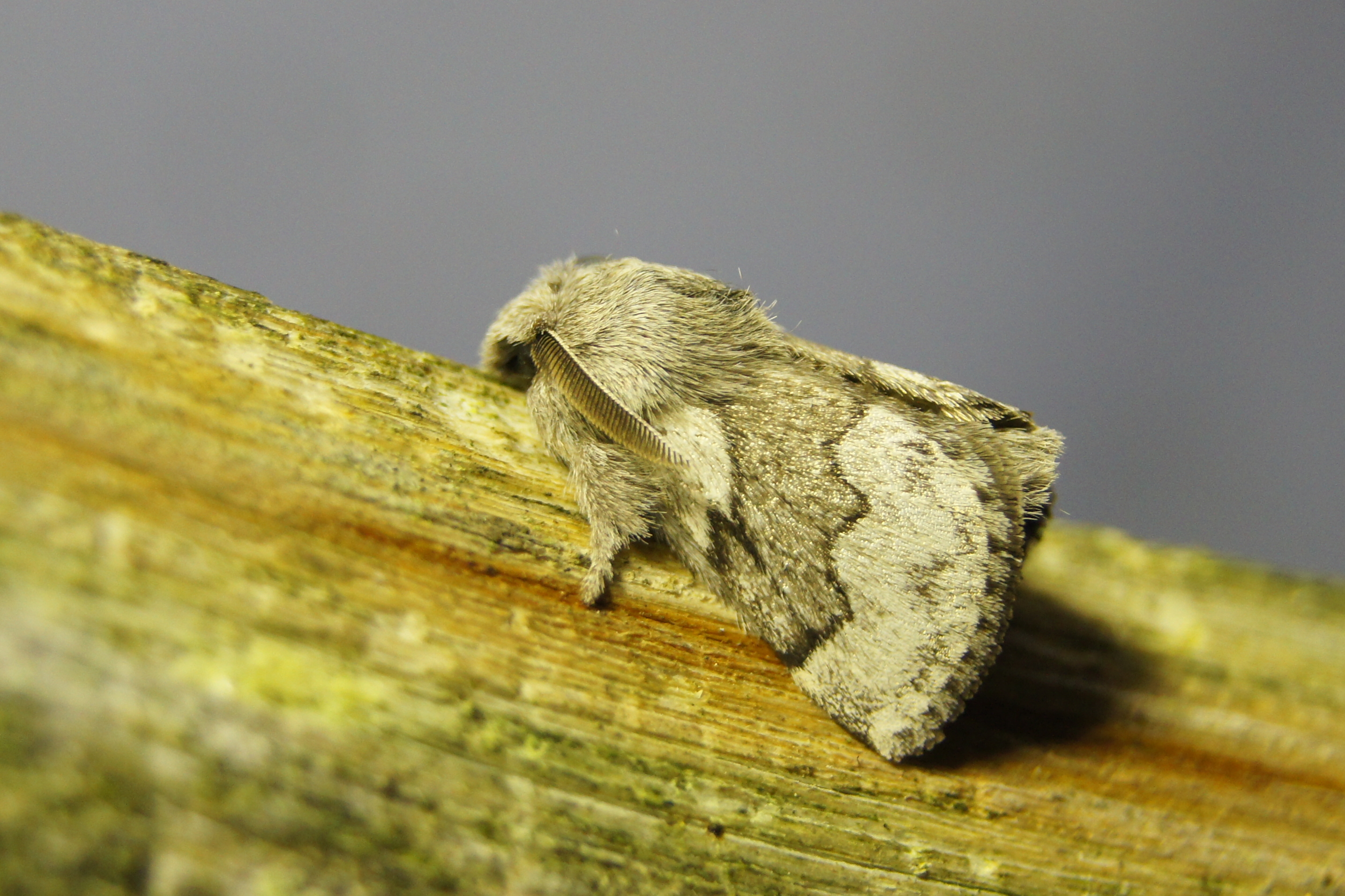 Trichiura crataegi male.